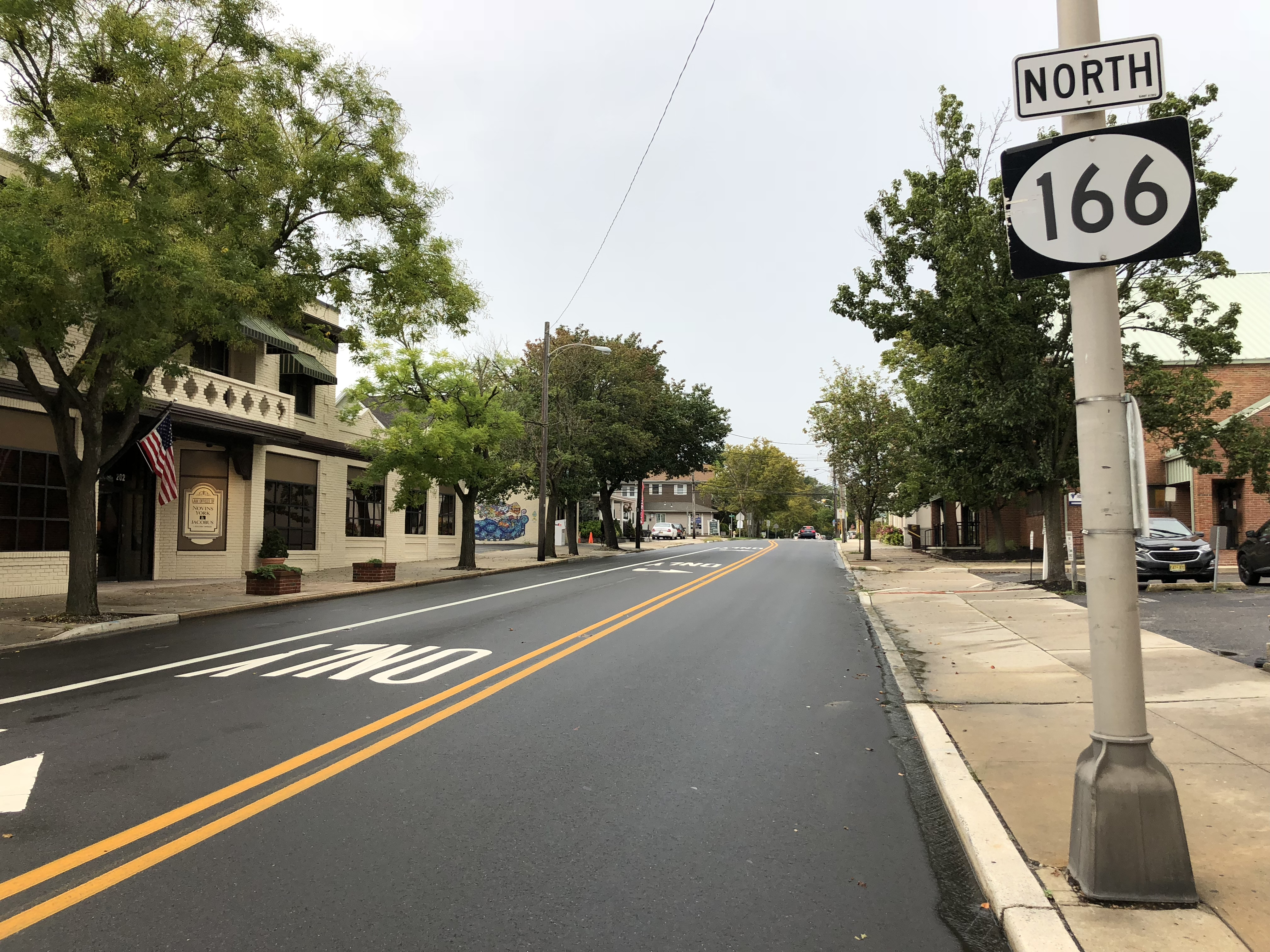 View south along New Jersey State Route 166 (Main Street) at Ocean County Route 4 (Washington Street) in Toms River Township, Ocean County, New Jersey